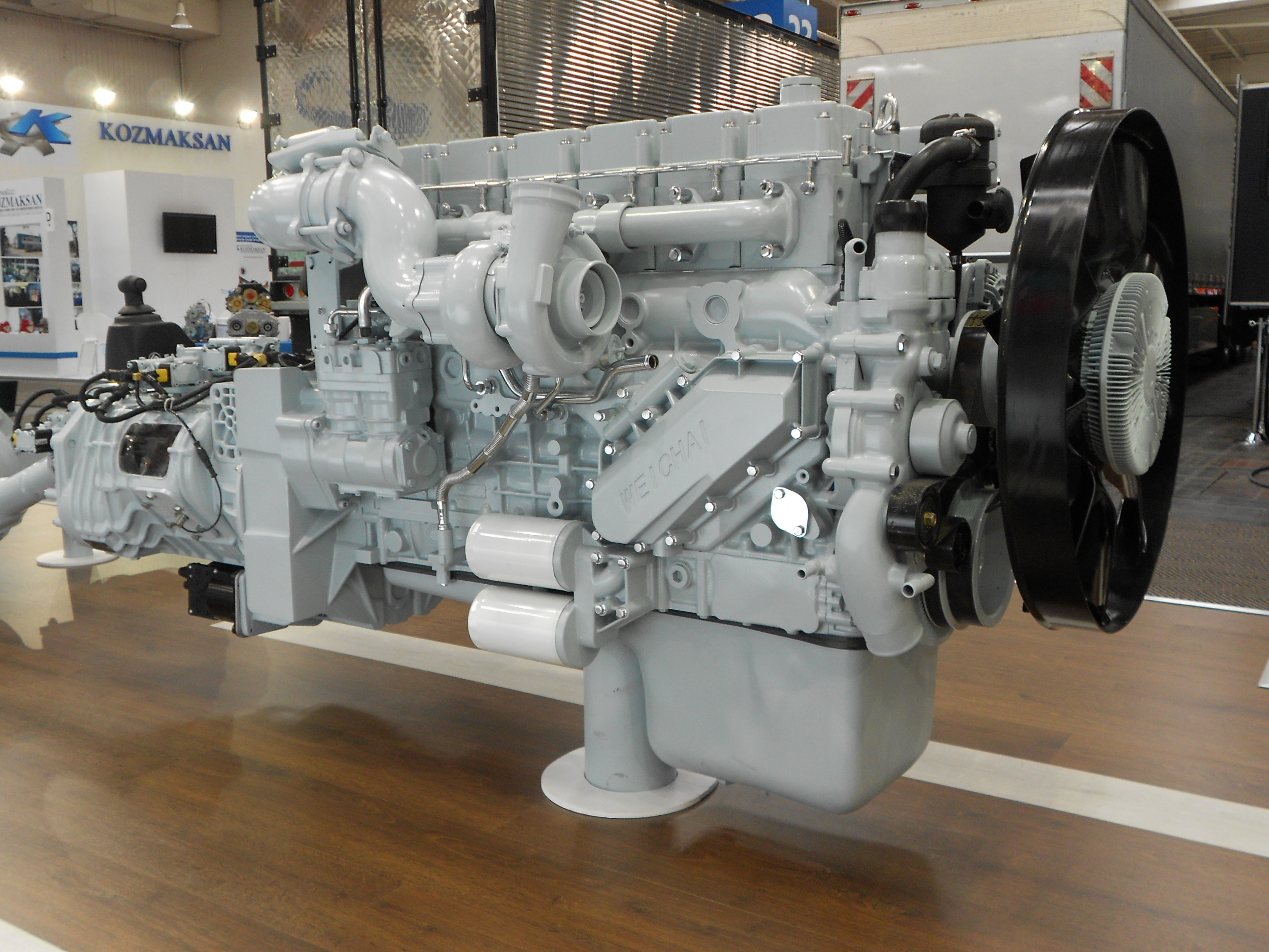 Weichai WP 12 engine. Main application: Heavy Duty Trucks